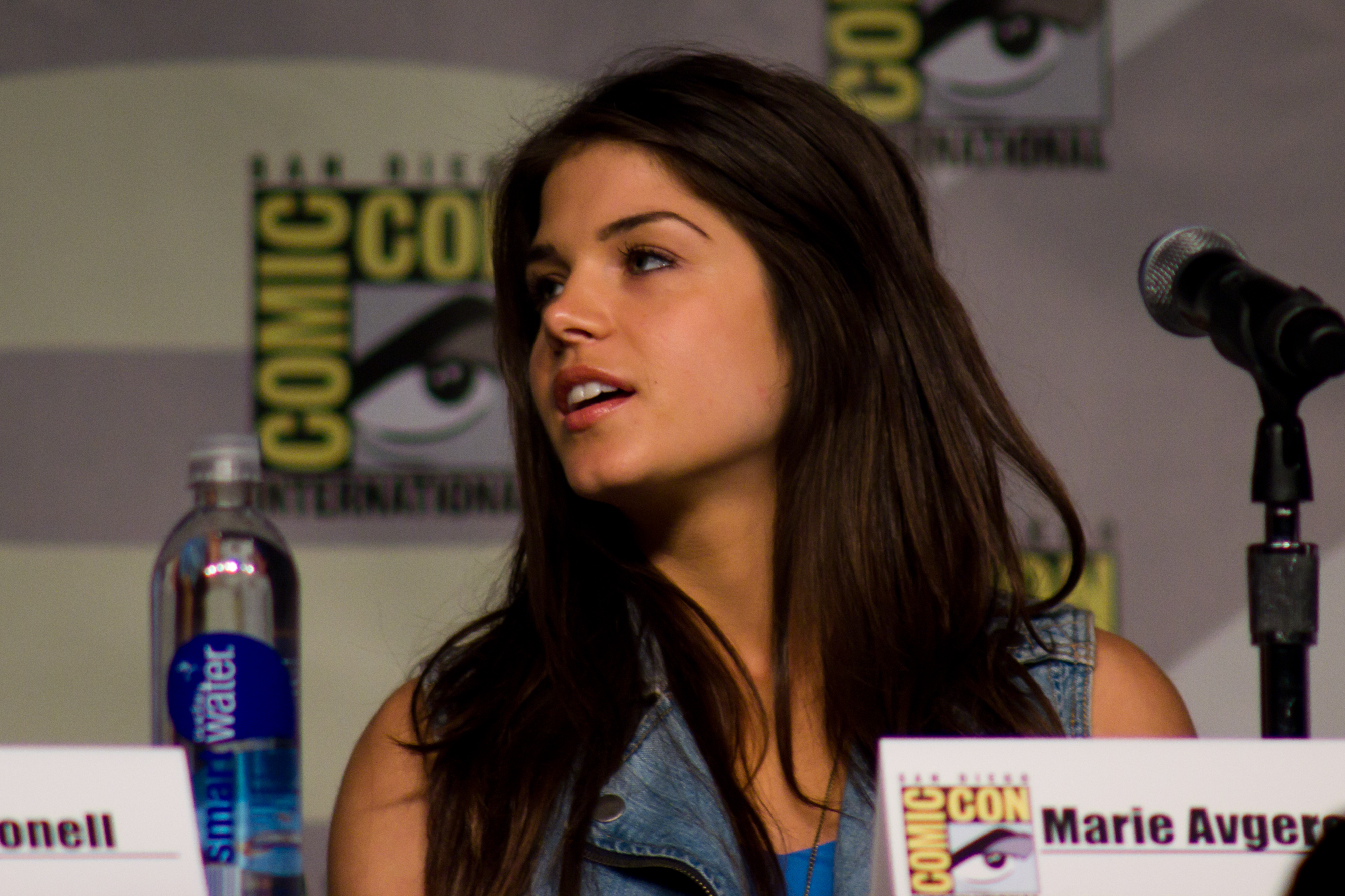 Marie Avgeropolous on the "The 100" panel at the 2013 Comic-Con.